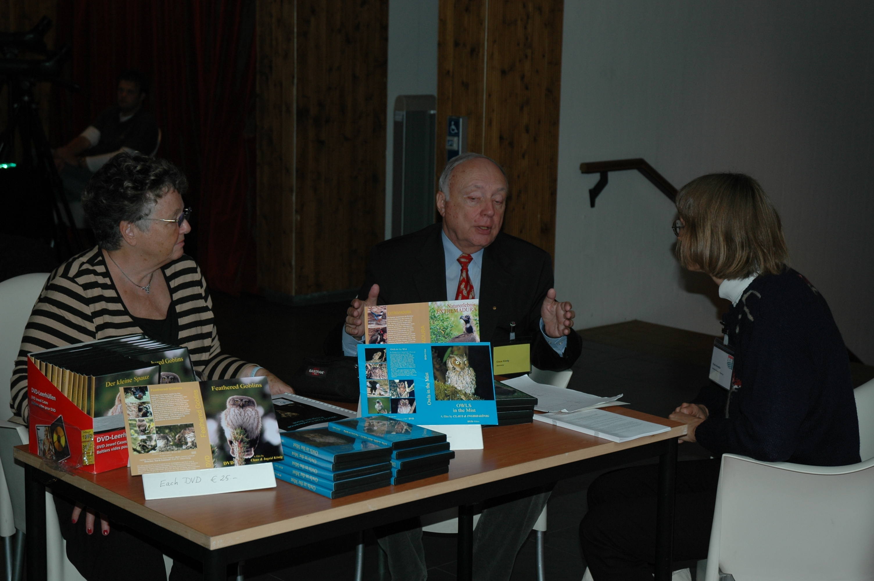 Von links Ingrid König (Ehefrau von Claus König), Claus König und Karla Kinstler beim Gespäch bei der World Owl Conference in Groningen (Niederlande).